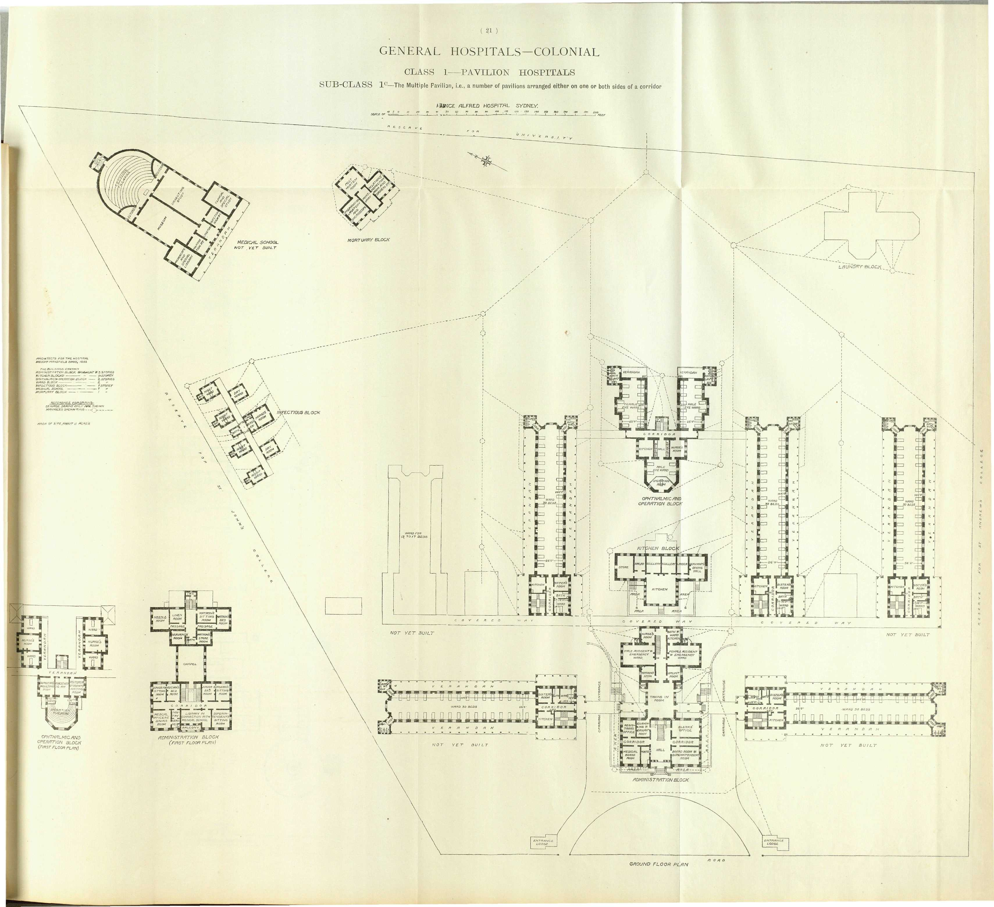 An individual page from the scanned book: Hospitals and Asylums of the World : Portfolio of Plans (1893)